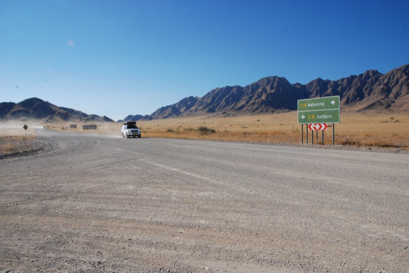 Main Road C19, Maltahöhe / Solitaire